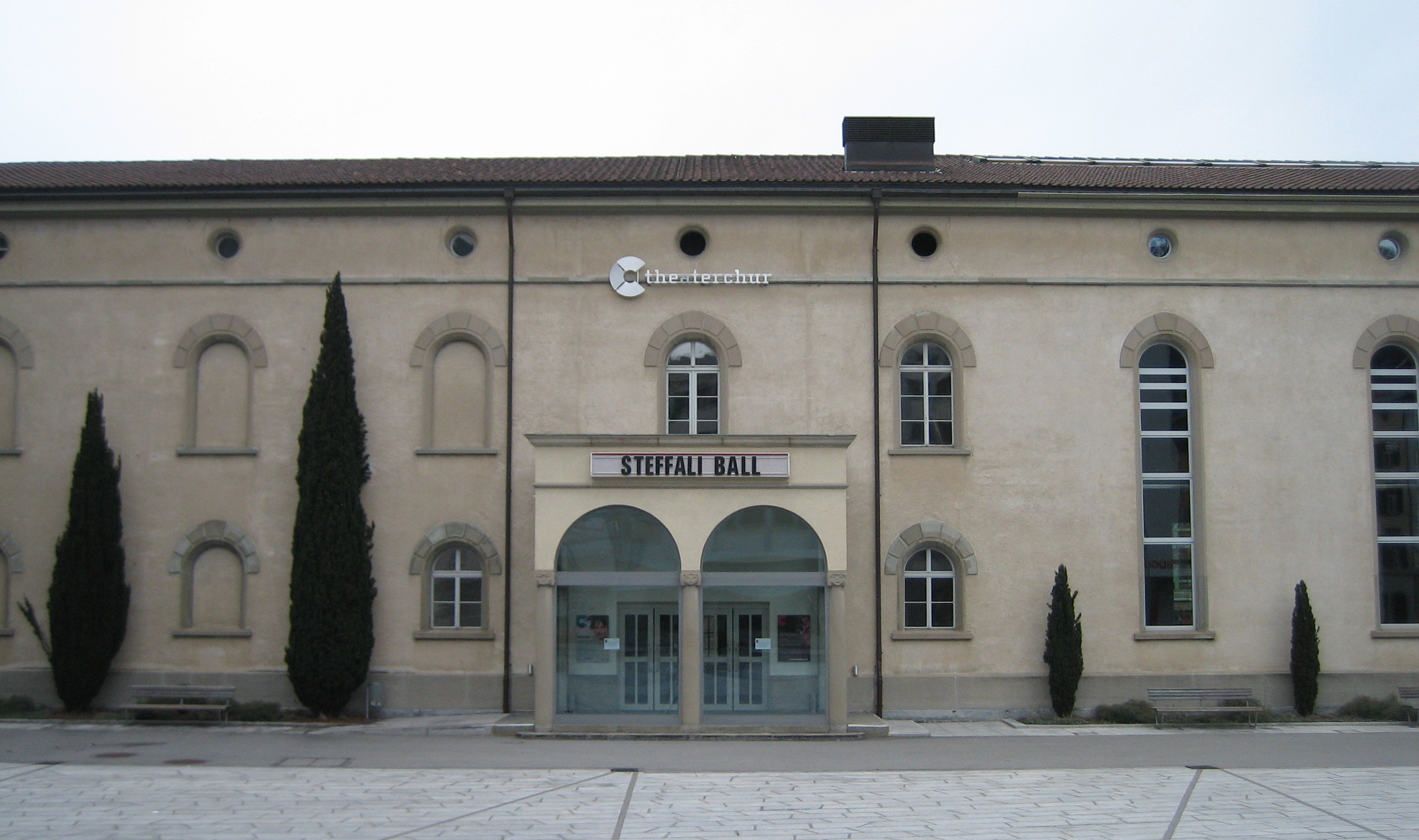 Theater Chur